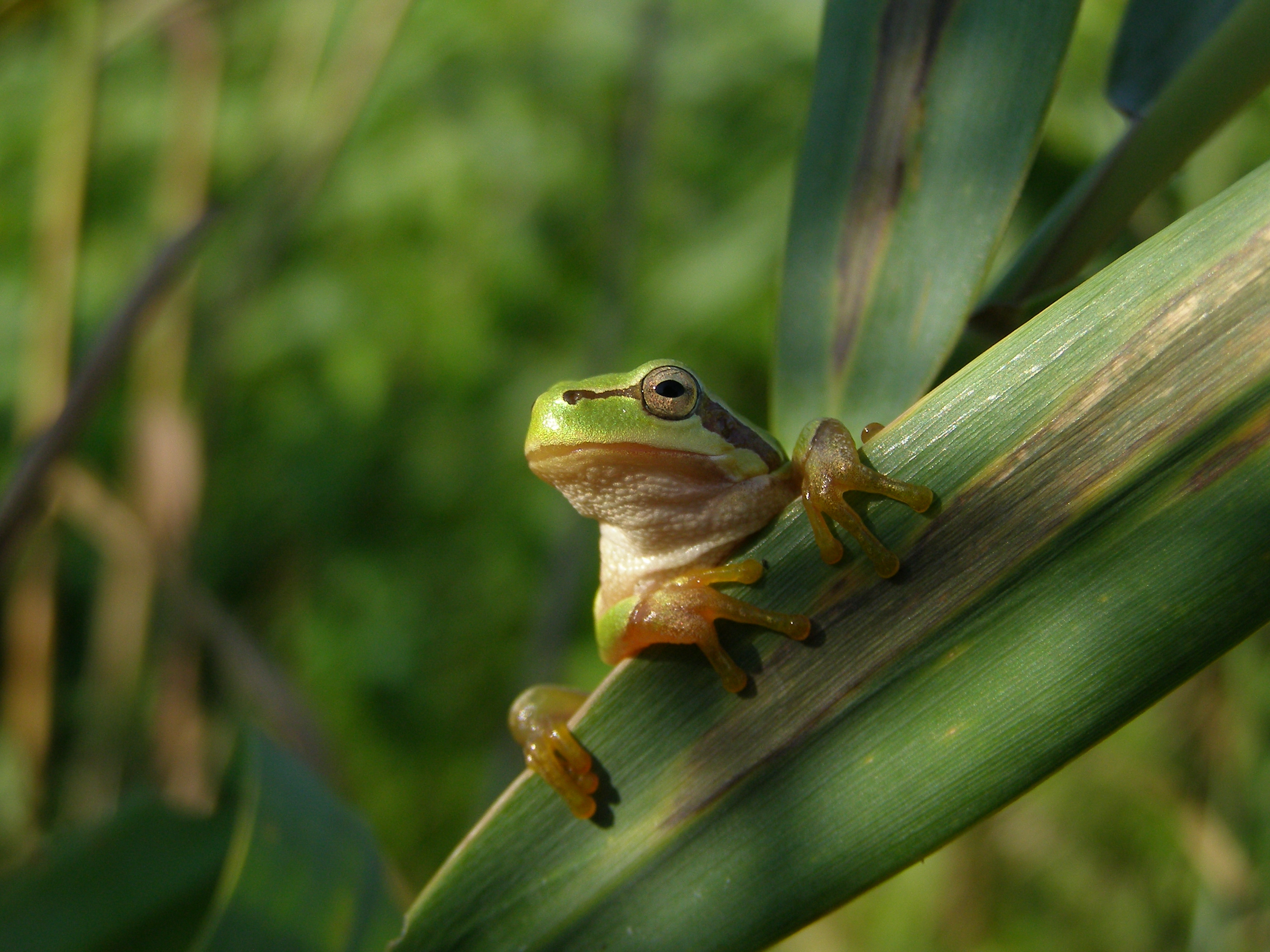 European Tree Frog (Hyla arborea)